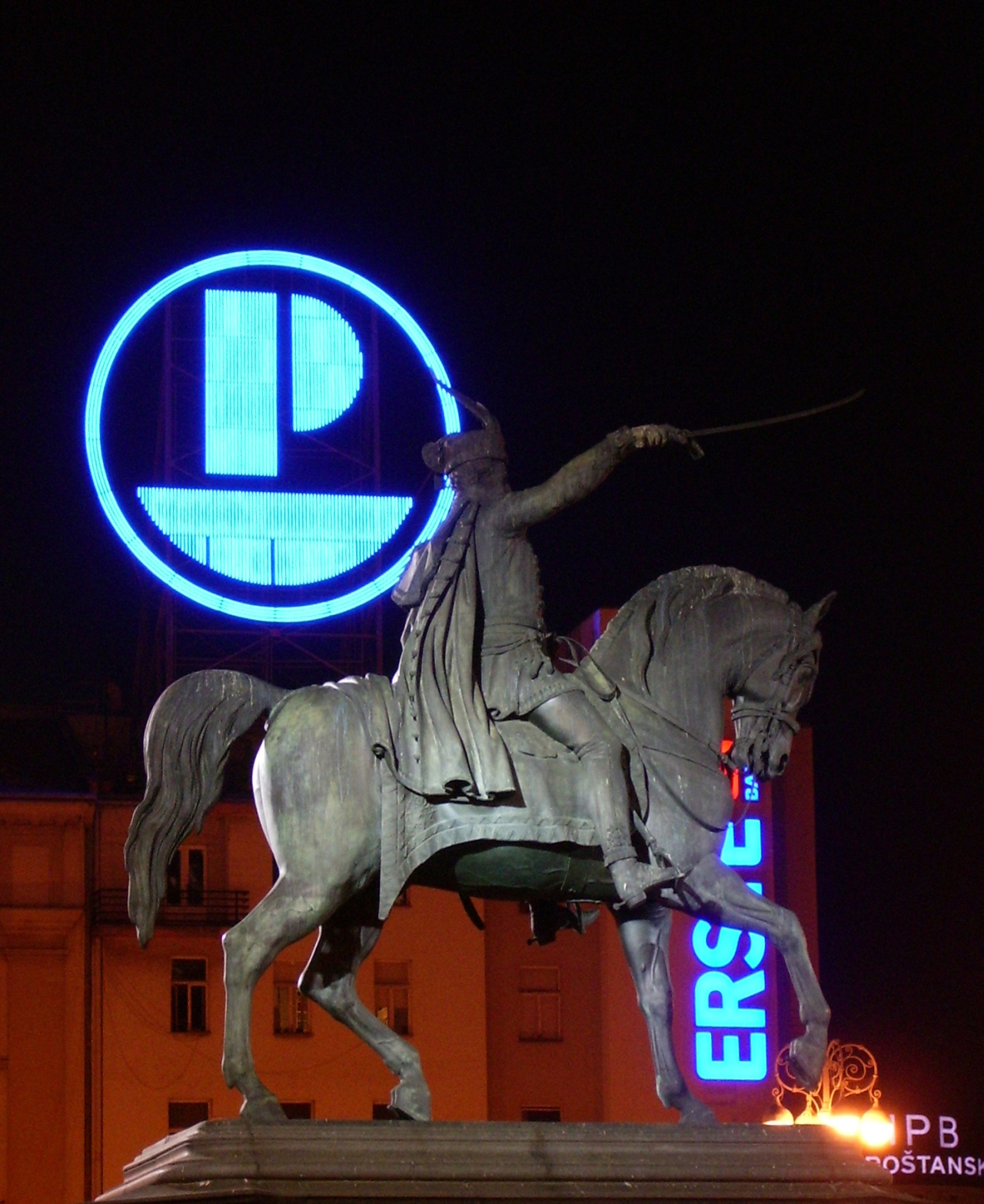 Spomenik banu Josipu Jelačiću, rad Antona Dominika Fernkorna u Zagrebu